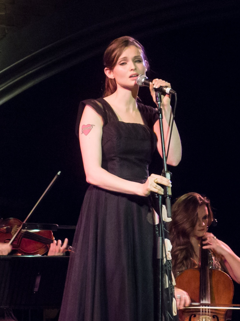 Sophie Ellis-Bextor performing at Union Chapel in London, England